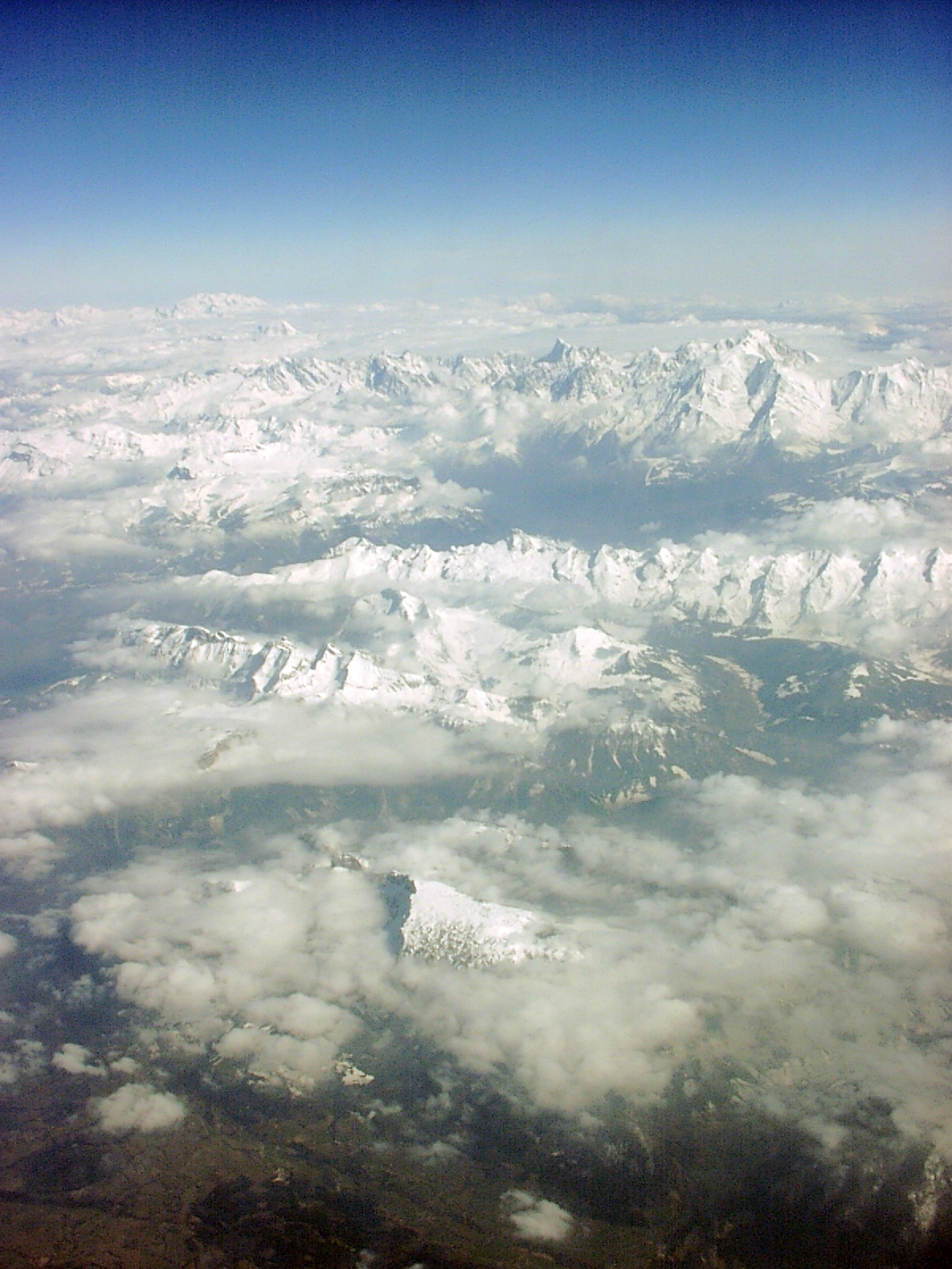 Aerial photograph of the Mont Blanc massif, seen from the west